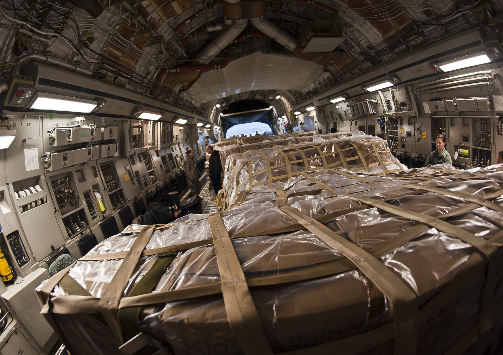 The 58th Airlift Squadron and 97th Logistics Readiness Squadron air operations flight members load 137,000 pounds of food into a C-17 Globemaster III, Dec. 28, 2012. The food was transported to Port-au-Prince, Haiti in support of the Denton Amendment, a program that provides relief to Haitian citizens by making the transportation of humanitarian aid possible. The goods transported to Haiti were donated by Operation Ukraine, a nonprofit organization that provides relief to Haitian citizens with food, medicine, and school supplies. (U.S. Air Force photo by Airman 1st Class Levin Boland / Released)